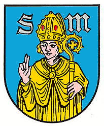 Coat of arms of Rittersheim